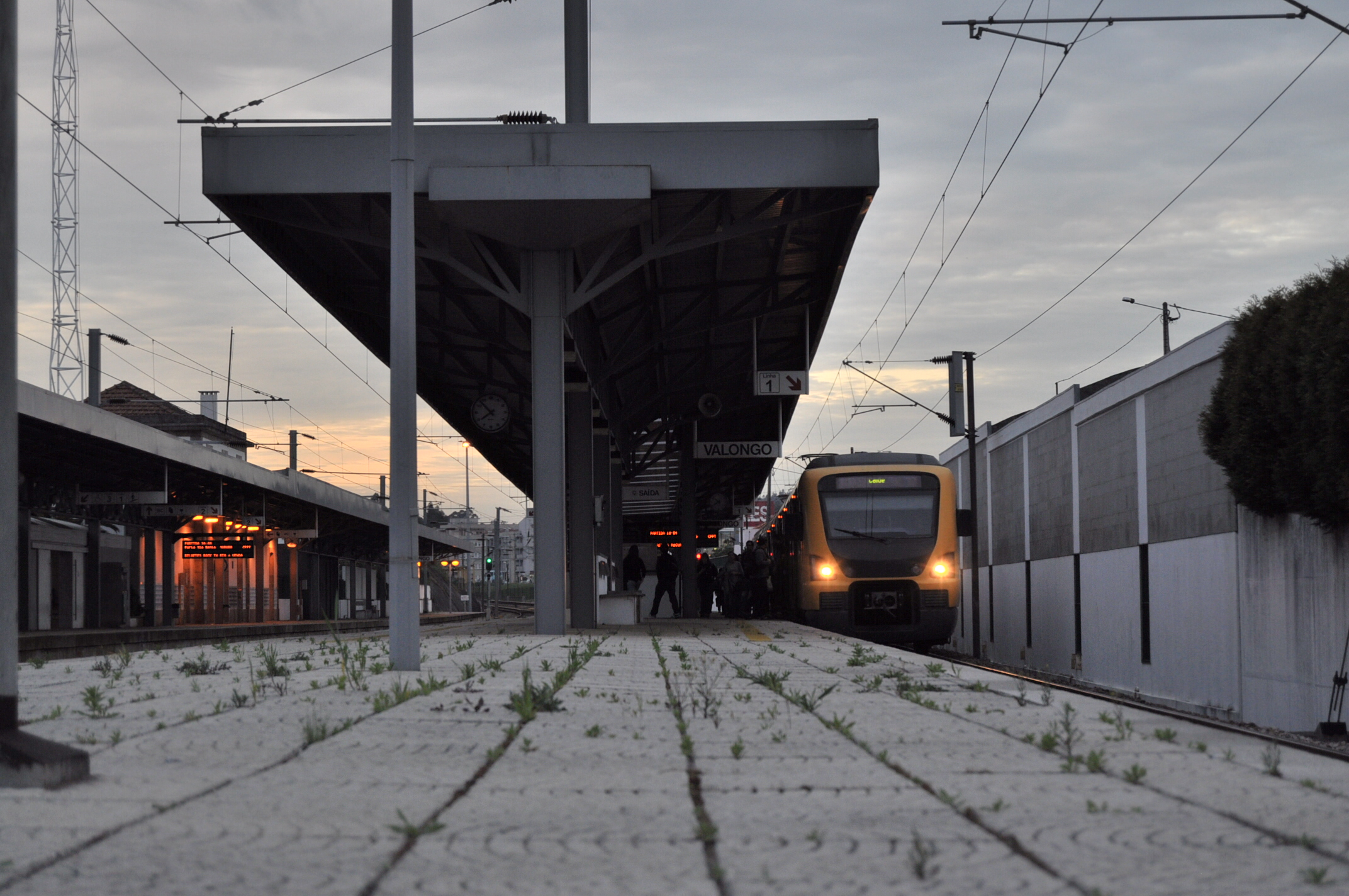 General Image of the Valongo Commuter Station